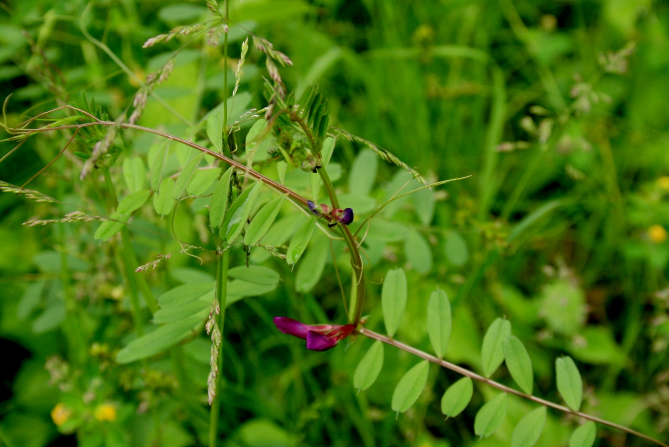 Vicia sativa ssp. segetalis: Foliage and flowers